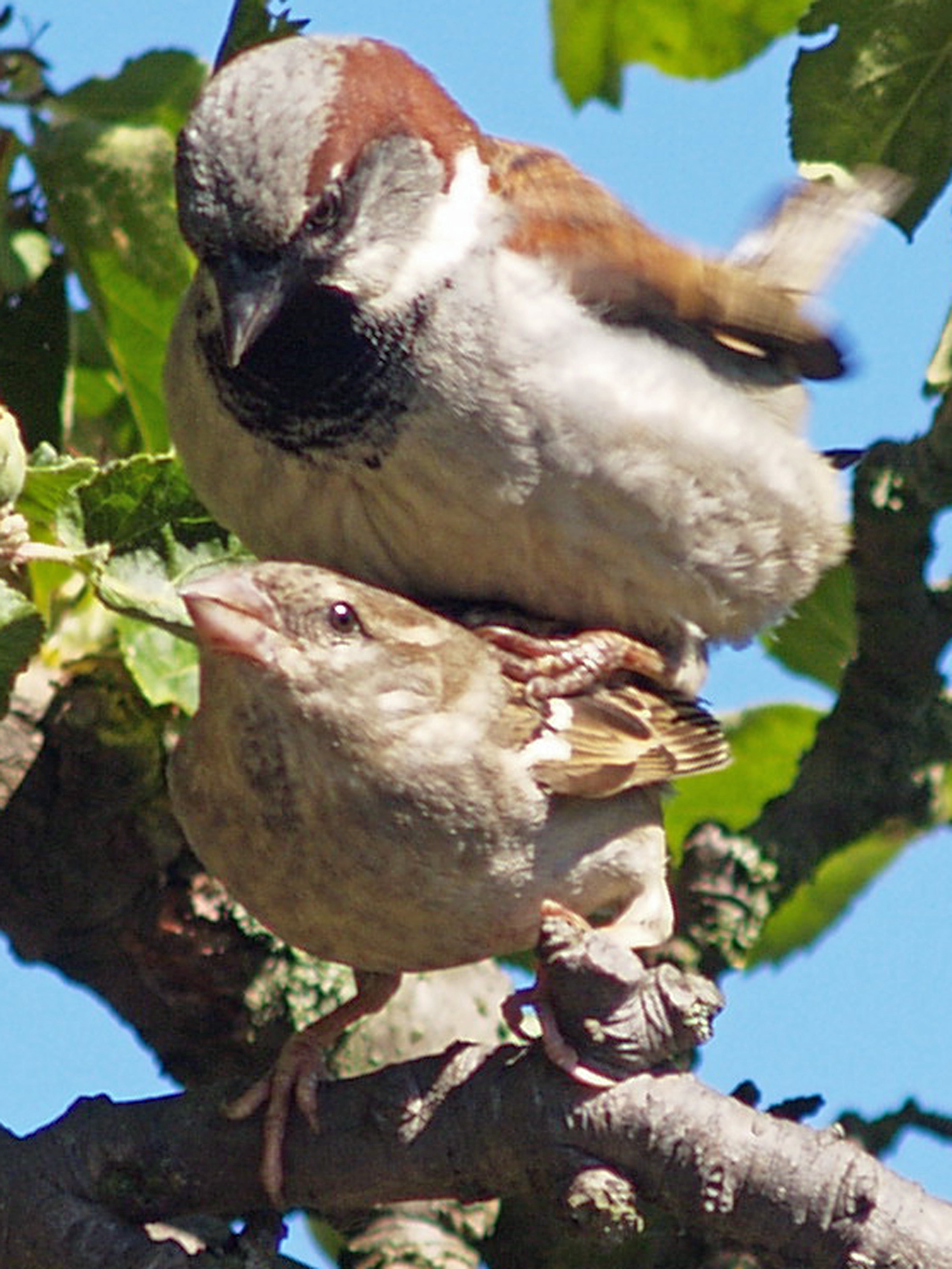 House Sparrows (Passer domesticus) copulating in an apple tree